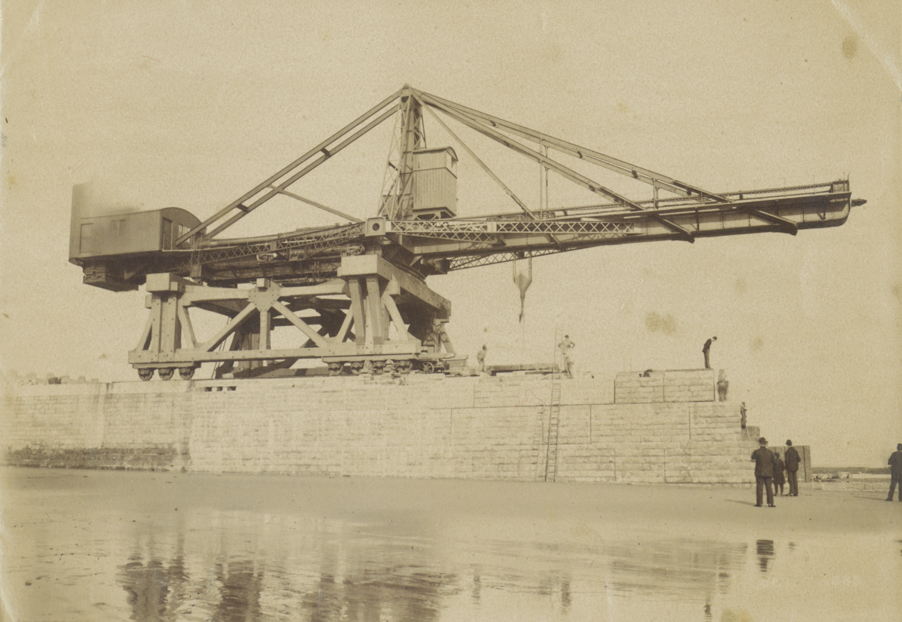 Crane in operation during early stages of the construction of Roker Pier, 1885 (TWAM ref. 3768/8). The granite and concrete blocks used in the construction of the pier were loaded onto wagons by a Goliath crane at the River Wear Commissioners Works and then lifted into position by a 50-ton Titan crane. This set of images relates to Roker Pier, Sunderland and is taken from a scrapbook kept by Henry Hay Wake, chief engineer to the River Wear Commission. Henry Wake designed Roker Pier and also oversaw its construction from beginning to end. The Pier' s foundation stone was laid in September 1885 and it was formally opened on 23 September 1903. The Pier is 2,800 feet long and was built of Aberdeen granite and concrete cement at a total cost of £290,000. (Copyright) We're happy for you to share this digital image within the spirit of The Commons. Please cite 'Tyne & Wear Archives & Museums' when reusing. Certain restrictions on high quality reproductions and commercial use of the original physical version apply though; if you're unsure please .